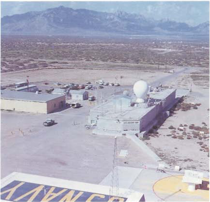 Aerial Photo of USS Desert Ship (LLS-1)